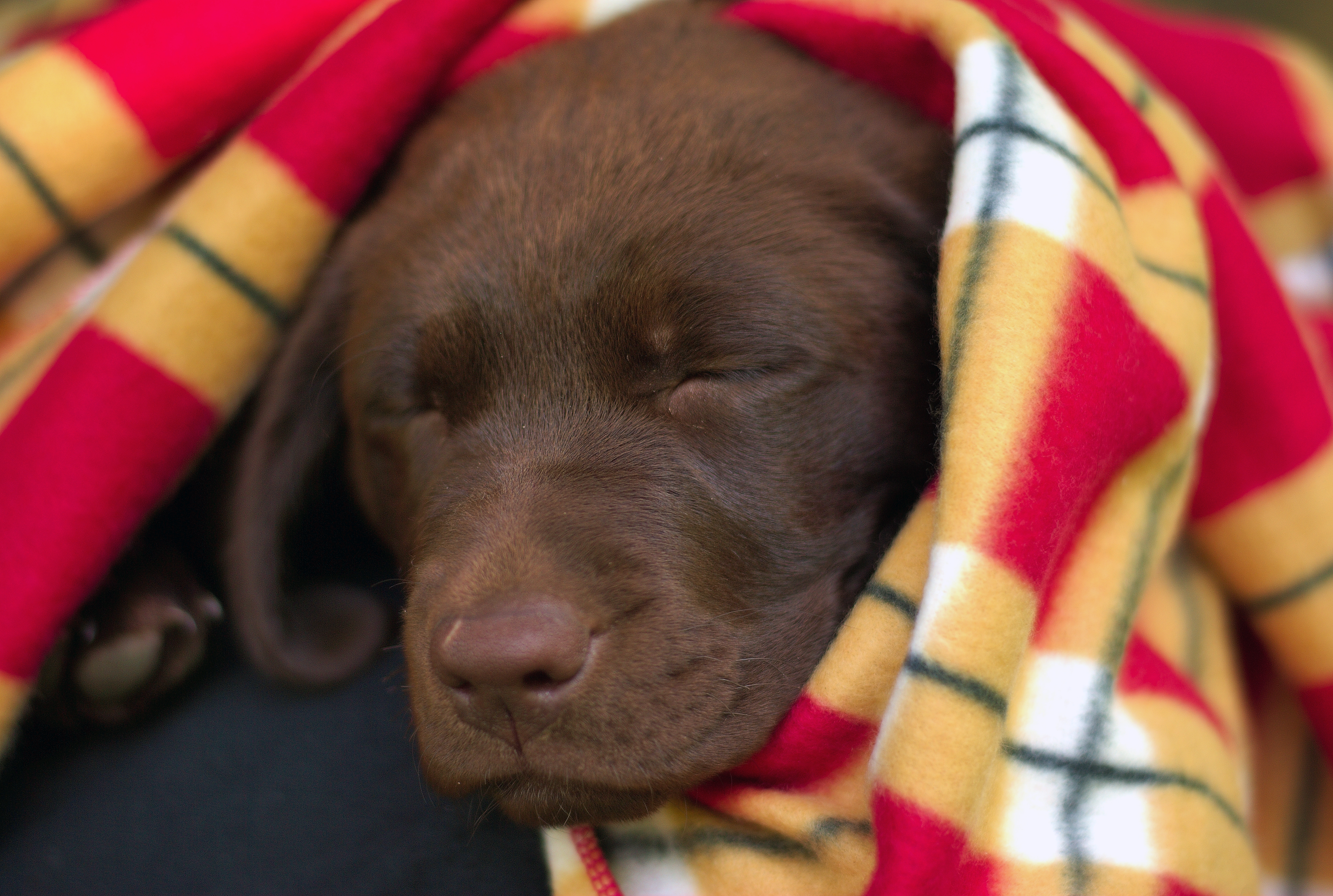 A 12-week-old chocolate Labrador Retriever puppy.